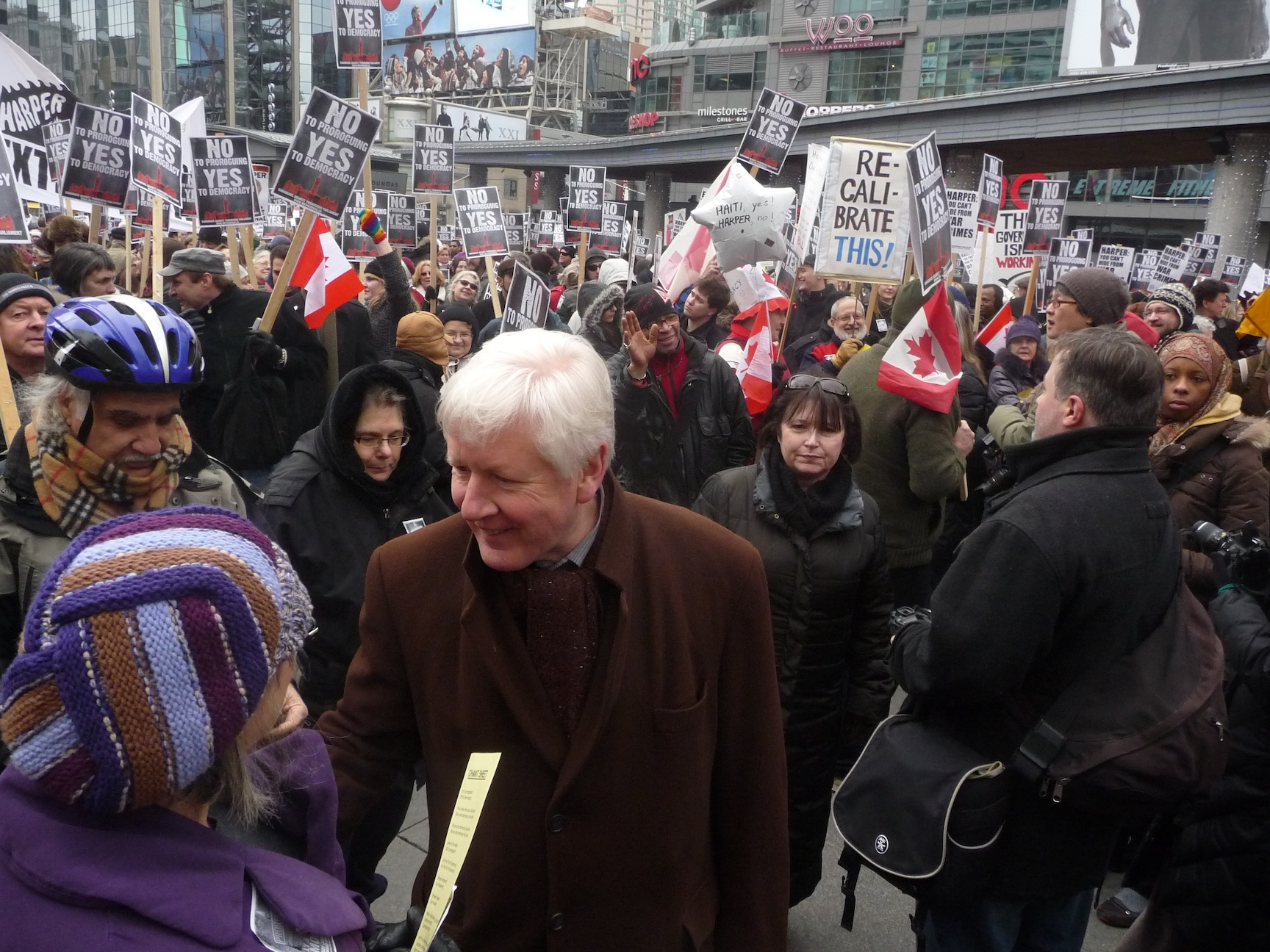 Bob Rae, Member of Parliament for the riding of Toronto Centre and former Premier of Ontario, attending protests against the prorogation of Parliament. Toronto, Canada.